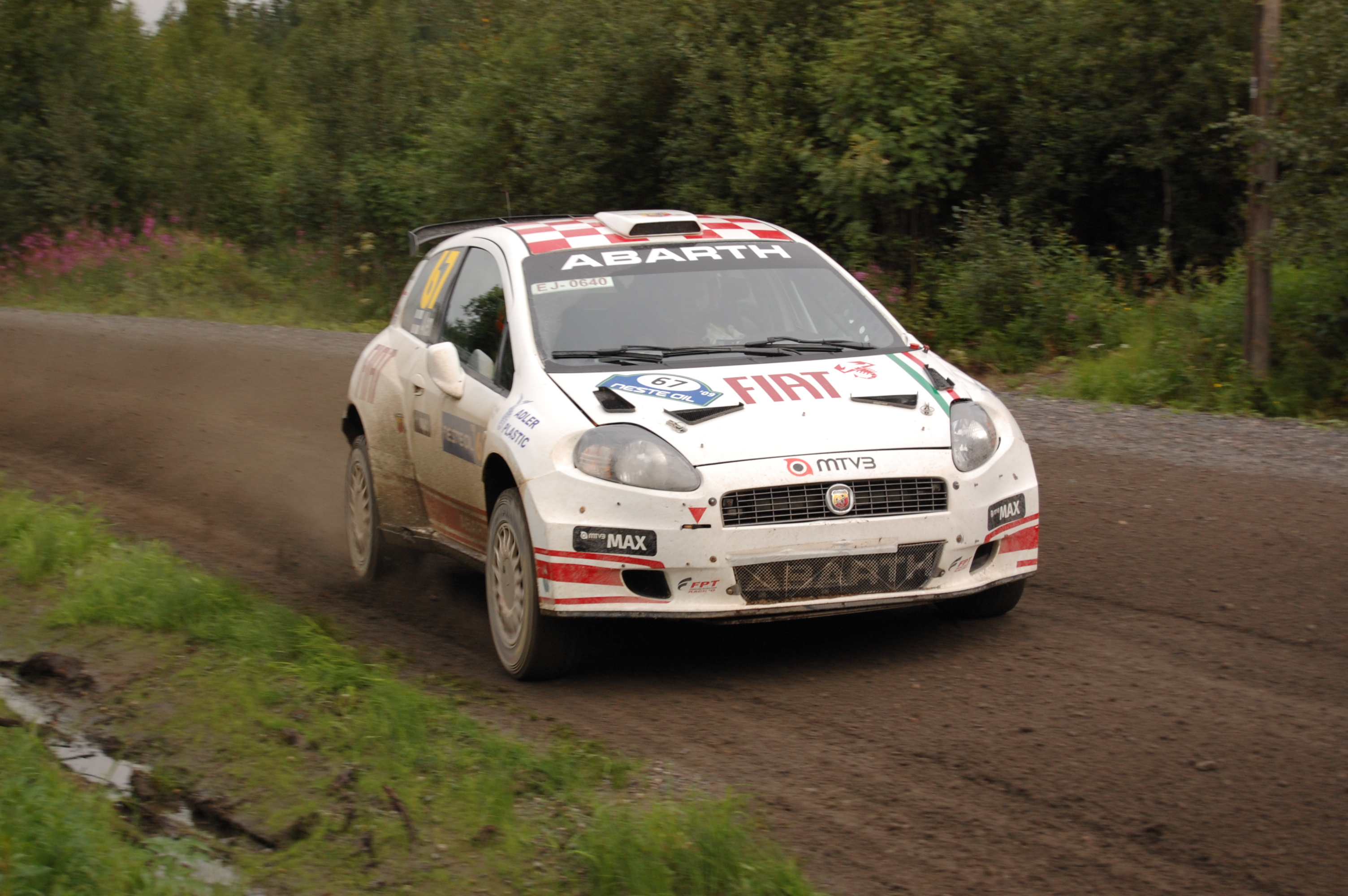 Anton Alen - 2009 Rally Finland. More pictures on my website